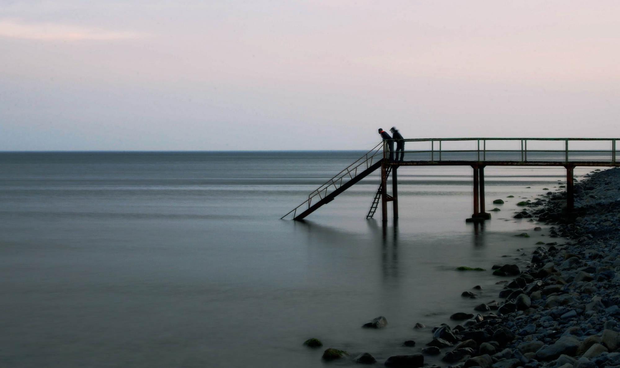 A ladder to the sea...